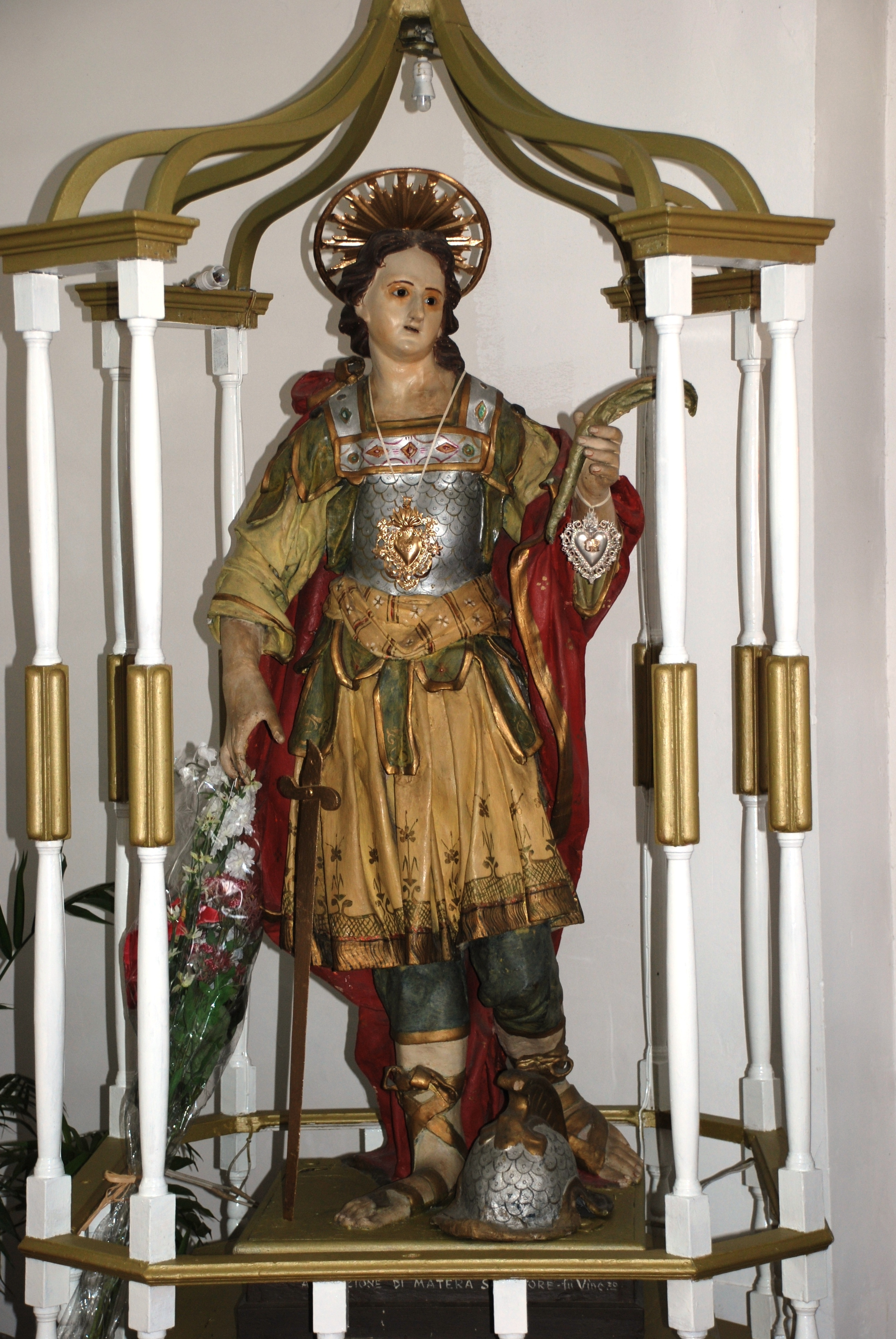 Photograph of processional statue of San Vincenzo Martire di Craco taken in Craco, Italy